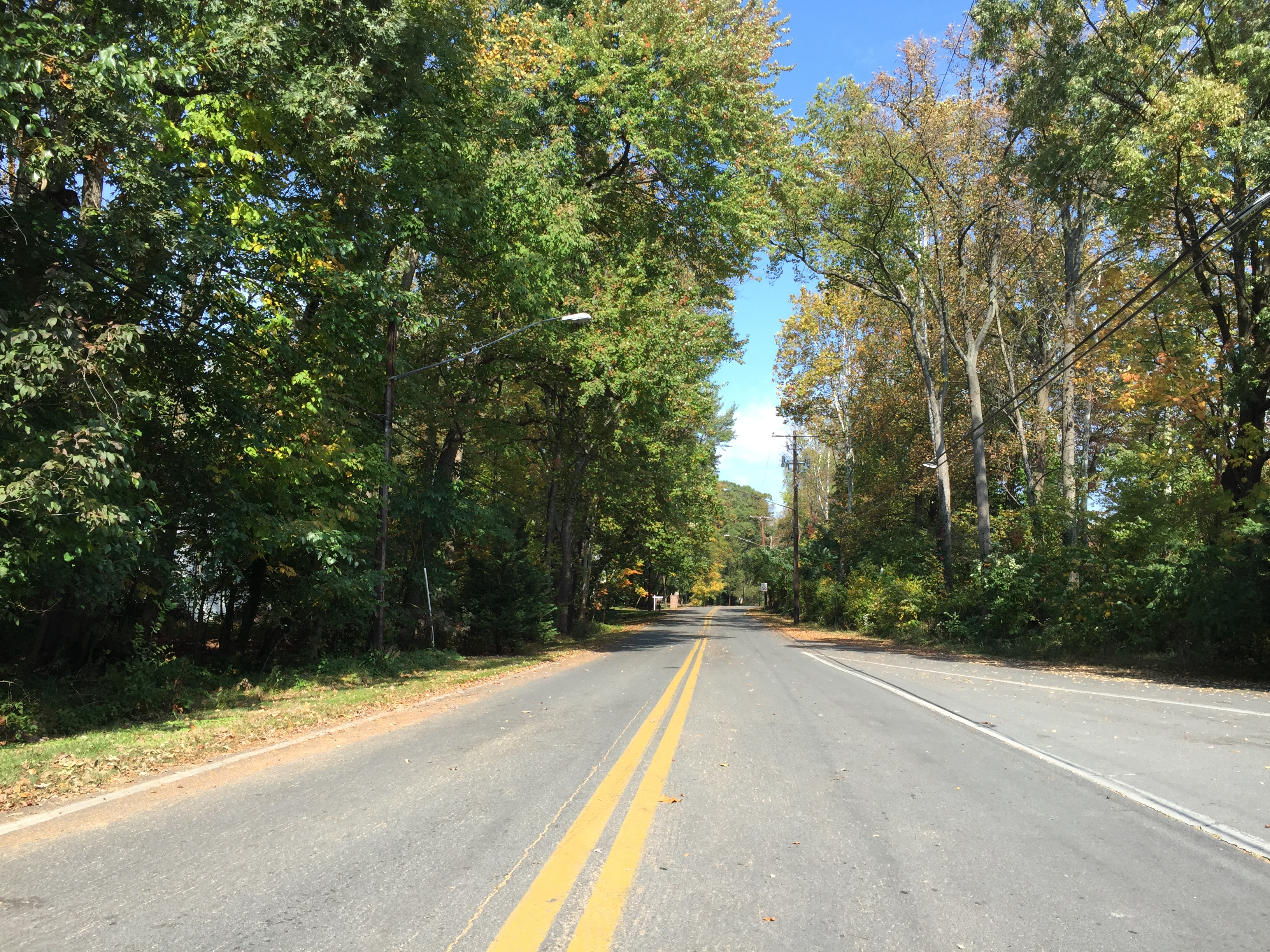 View north along Maryland State Route 655 (Old Georgia Avenue) at Carrolton Road in Aspen Hill, Montgomery County, Maryland